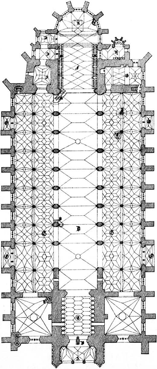 Ulm Minster, plan. A. Entrance hall. B. Main porch. C. Tower hall. D. Nave. E. Aisles. F. Choir. G. Sacristy. H. Besserer Chapel. J. Reithart Chapel. K. High altar. L. Old tabernacle. M. Choir stalls. N. Tabernacle. O. Baptismal font. P. Holy-water font. Q. Side porches. R. Organ entrance. S. Pulpit.